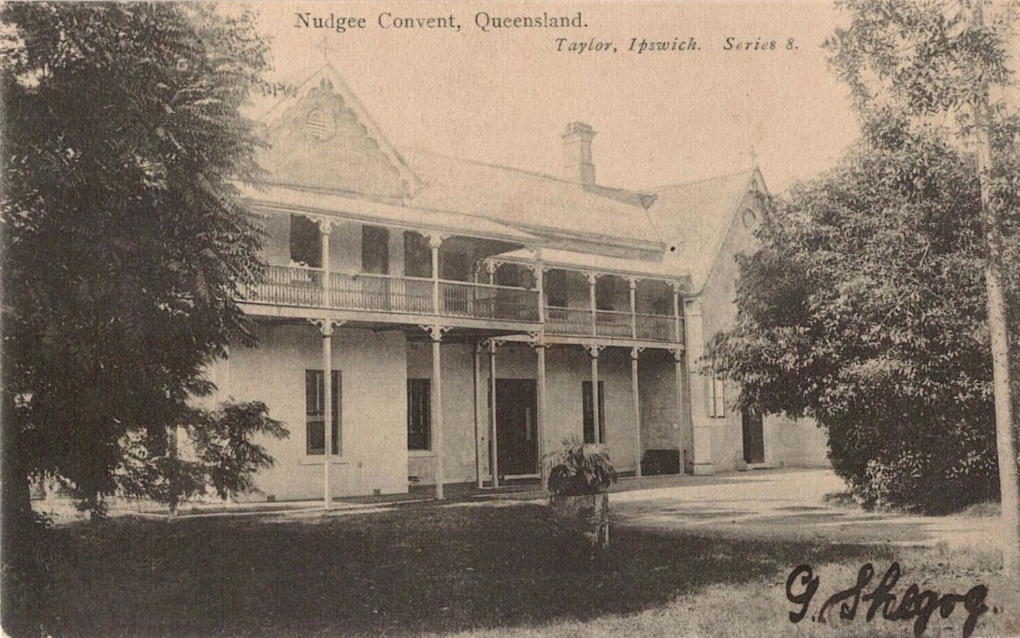 St Vincent's Convent, Nudgee, operated by Brisbane Congregation of the Sisters of Mercy